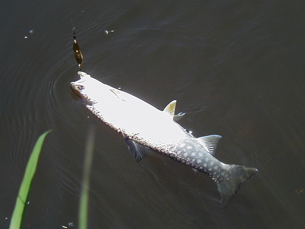 Large-scale individual, that was able to be fished in marshland river in East Hokkaido